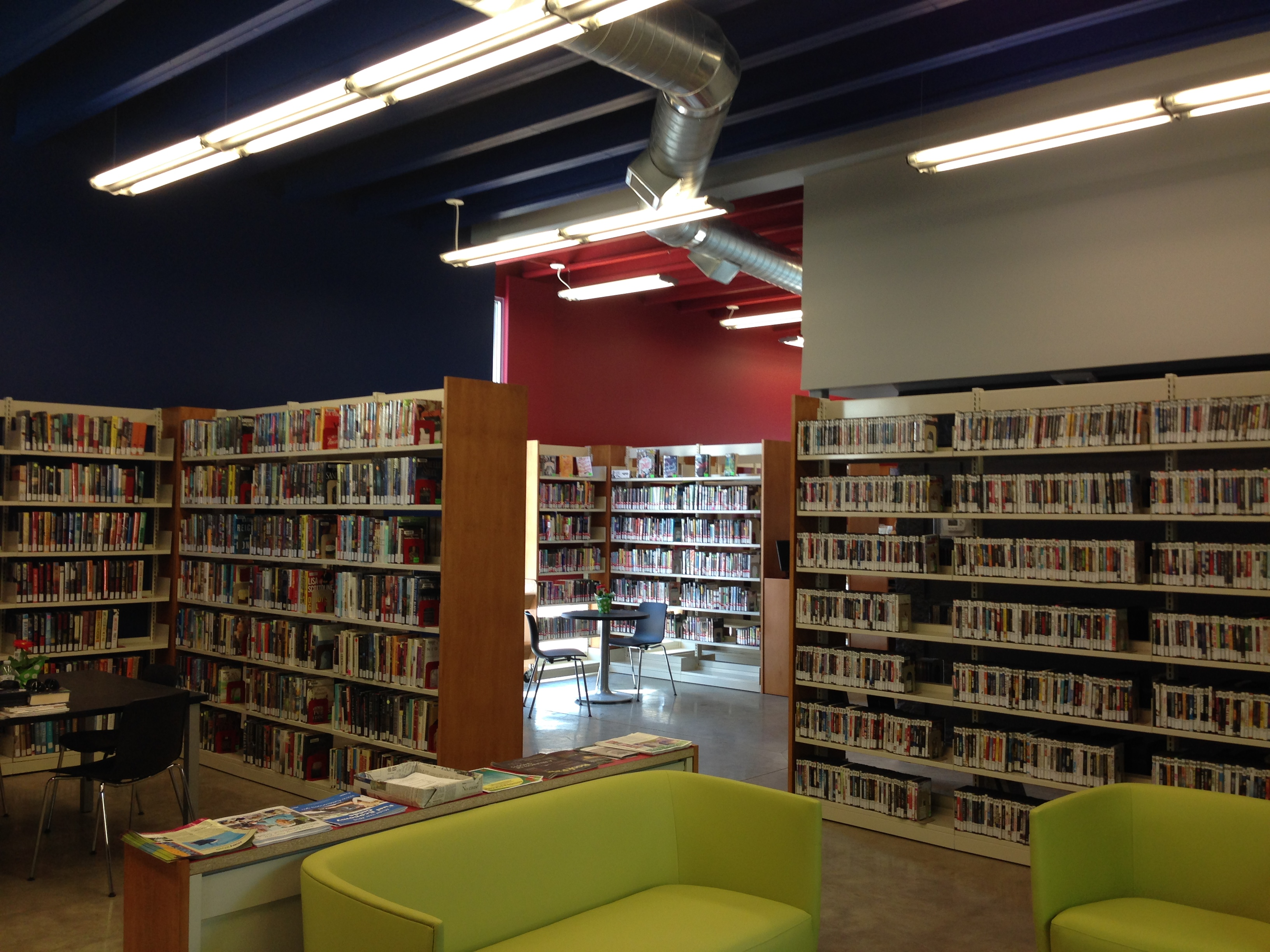 Sharpsburg Community Library.